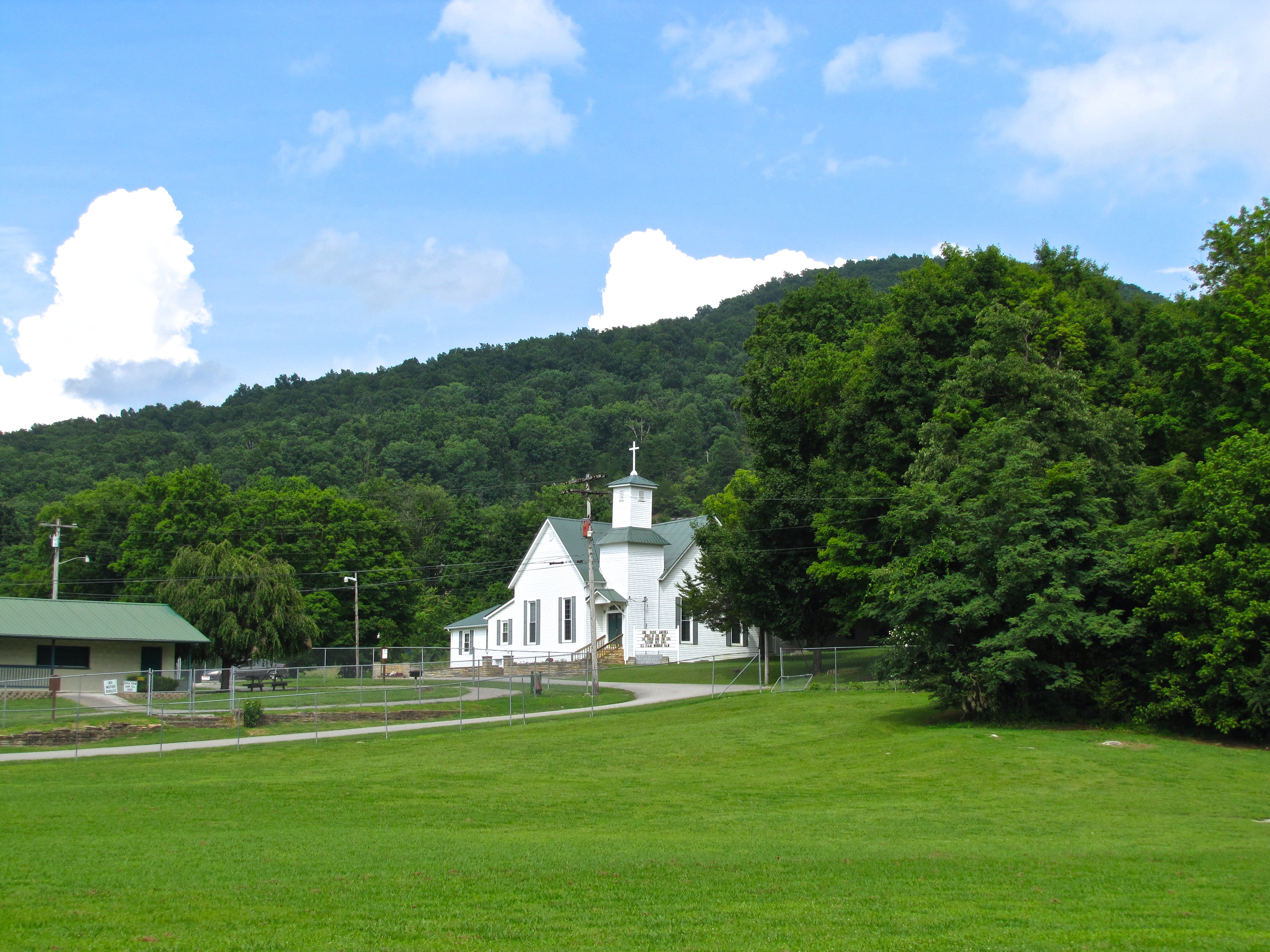 Haley's Grove Baptist Church in Crab Orchard, Tennessee, United States.